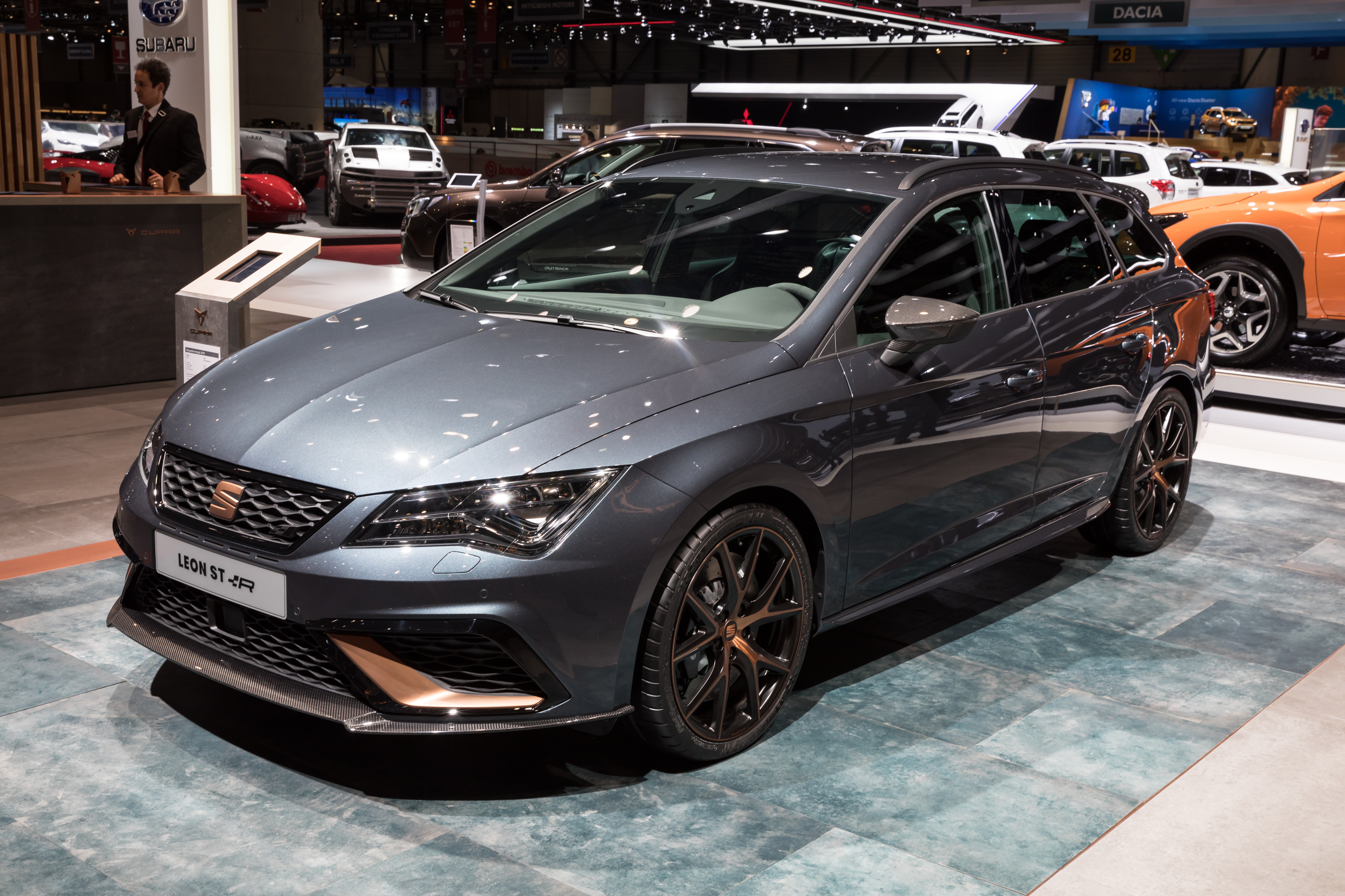 Geneva International Motor Show 2018